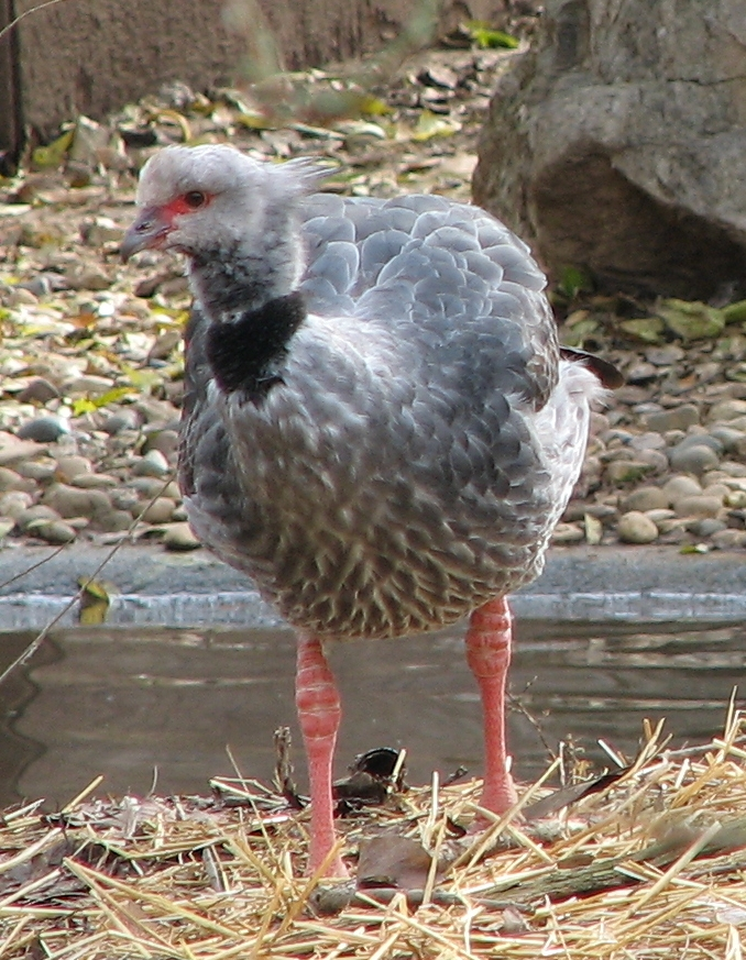 Southern Screamer